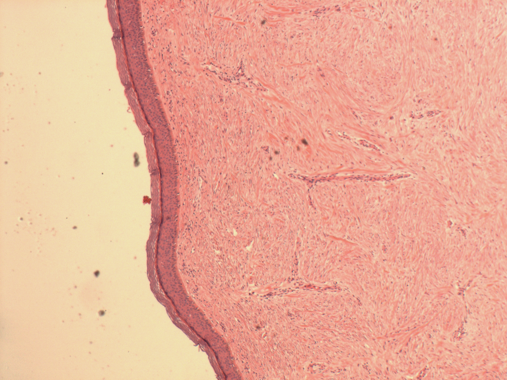 Neurothekeoma